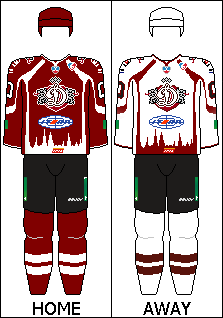 Dinamo Riga uniforms for 2012/2013 KHL season.